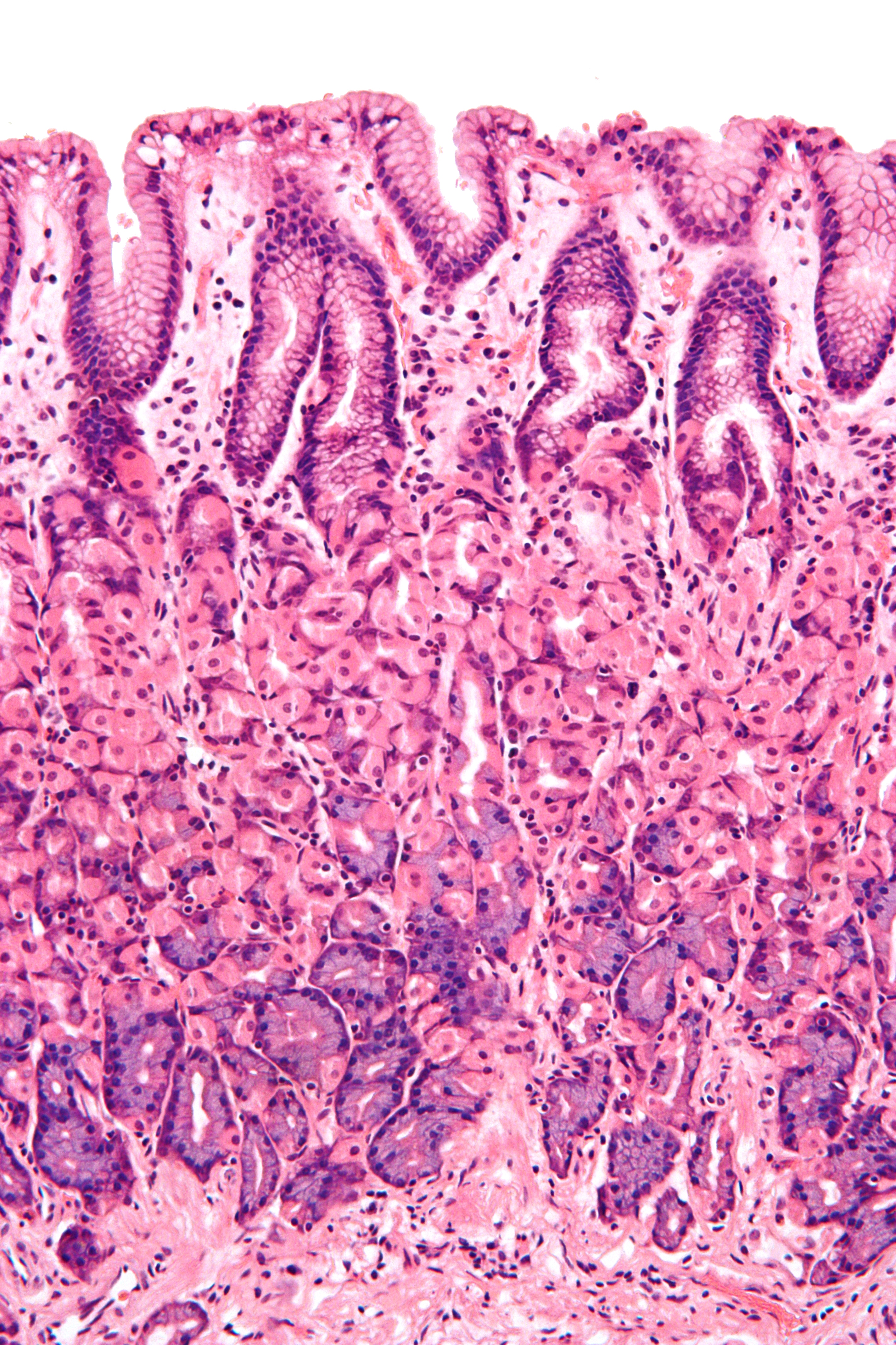 Intermediate magnification micrograph of normal gastric mucosa, i.e. inner most layer of the stomach. H&E stain.